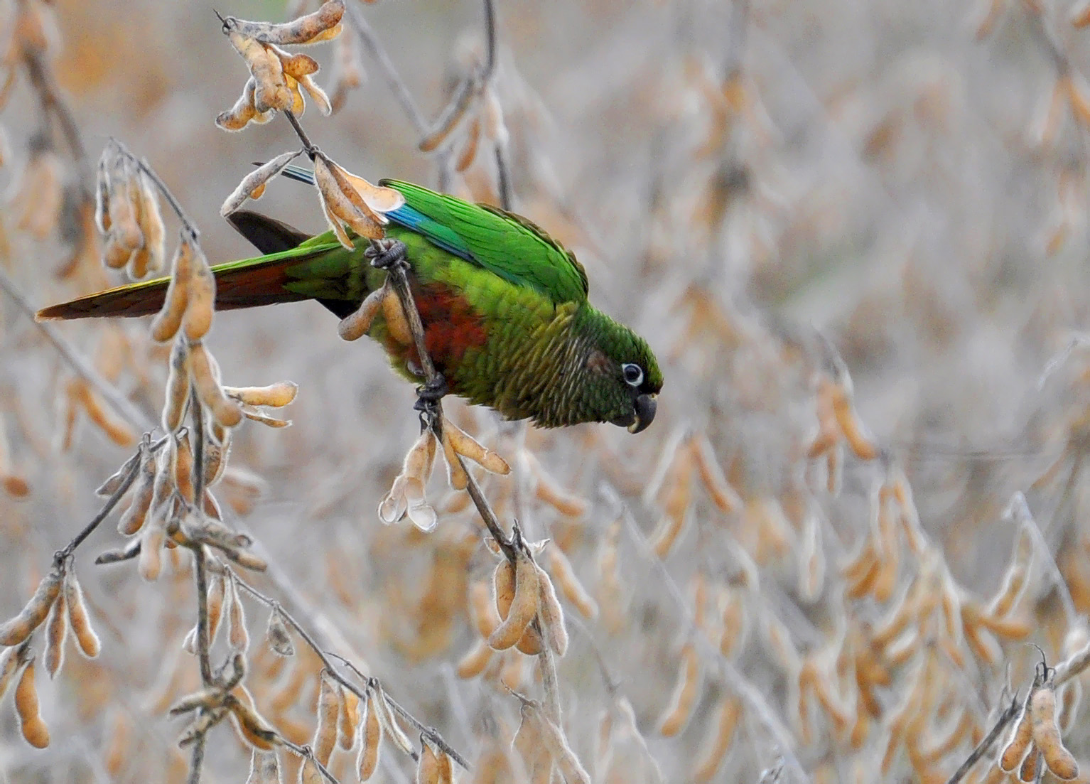 A Maroon-bellied Parakeet in Cerrito, Rio Grande do Sul, Brazil.